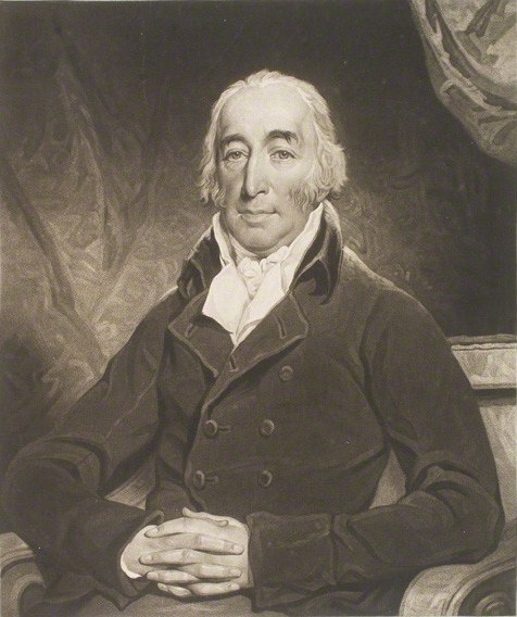 Portrait of Richard Twining (1749–1824), English merchant.